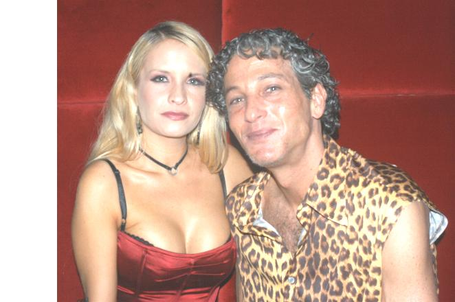 Angel Cassidy, Seymore Butts, at Digital Playground Party on September 22, 2004.